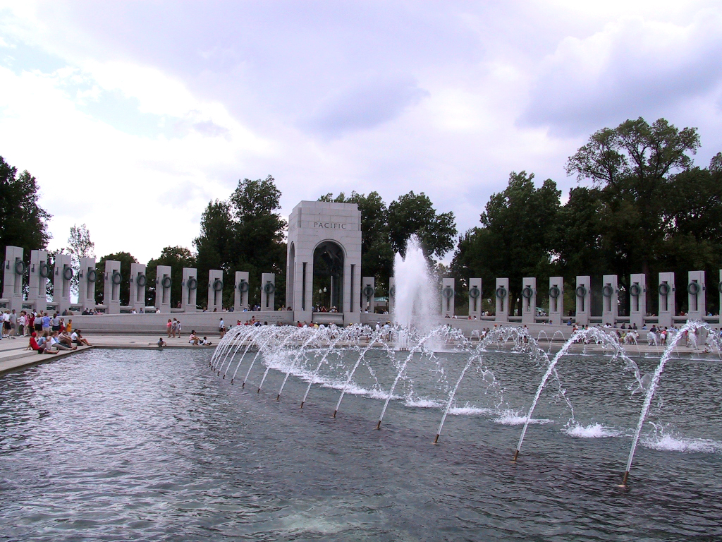 The Pacific side of the World War II Memorial on the National Mall in Washington, DC